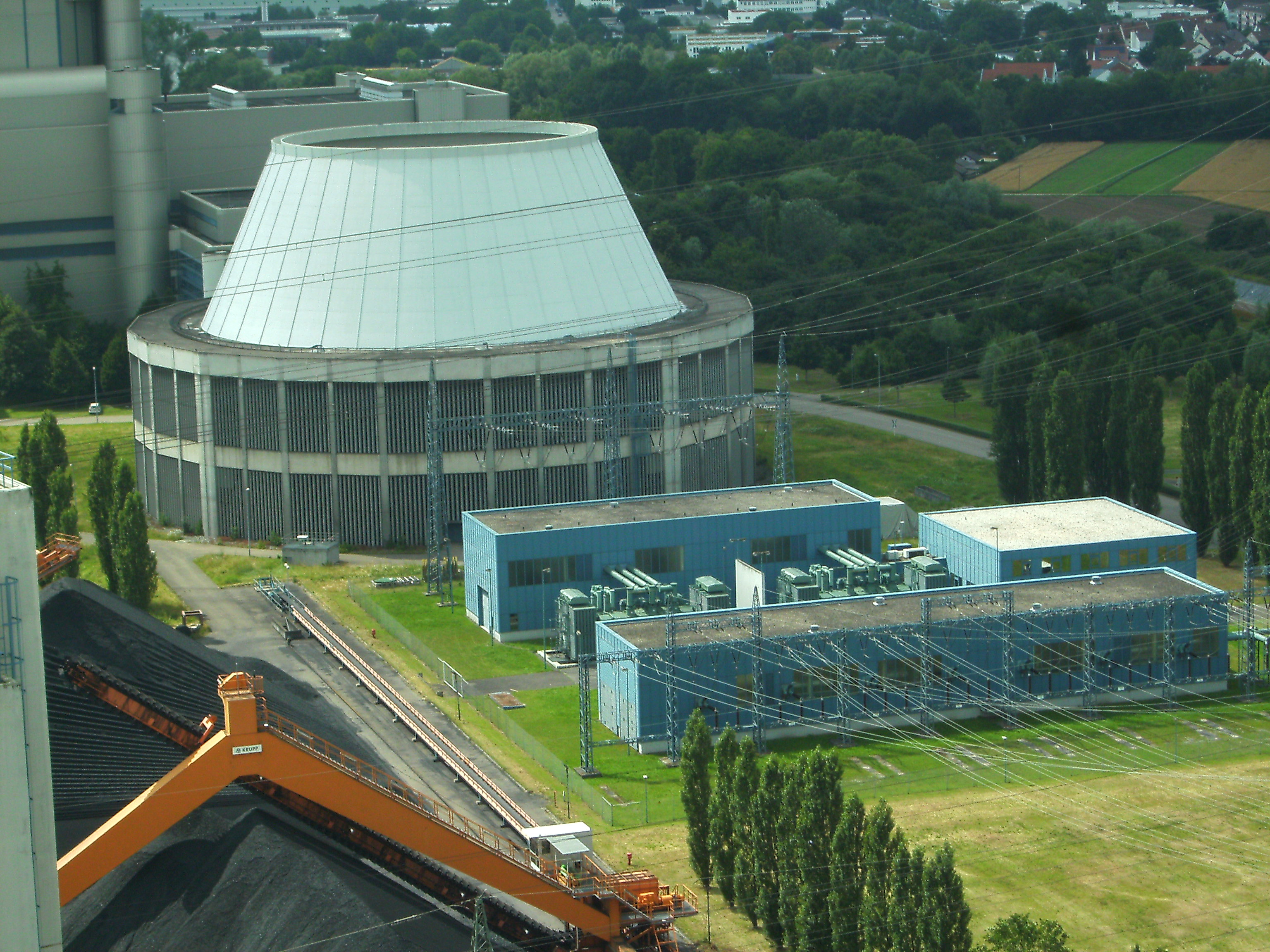 Altbach Power Plant Cooling Tower, 380 kV substation in front